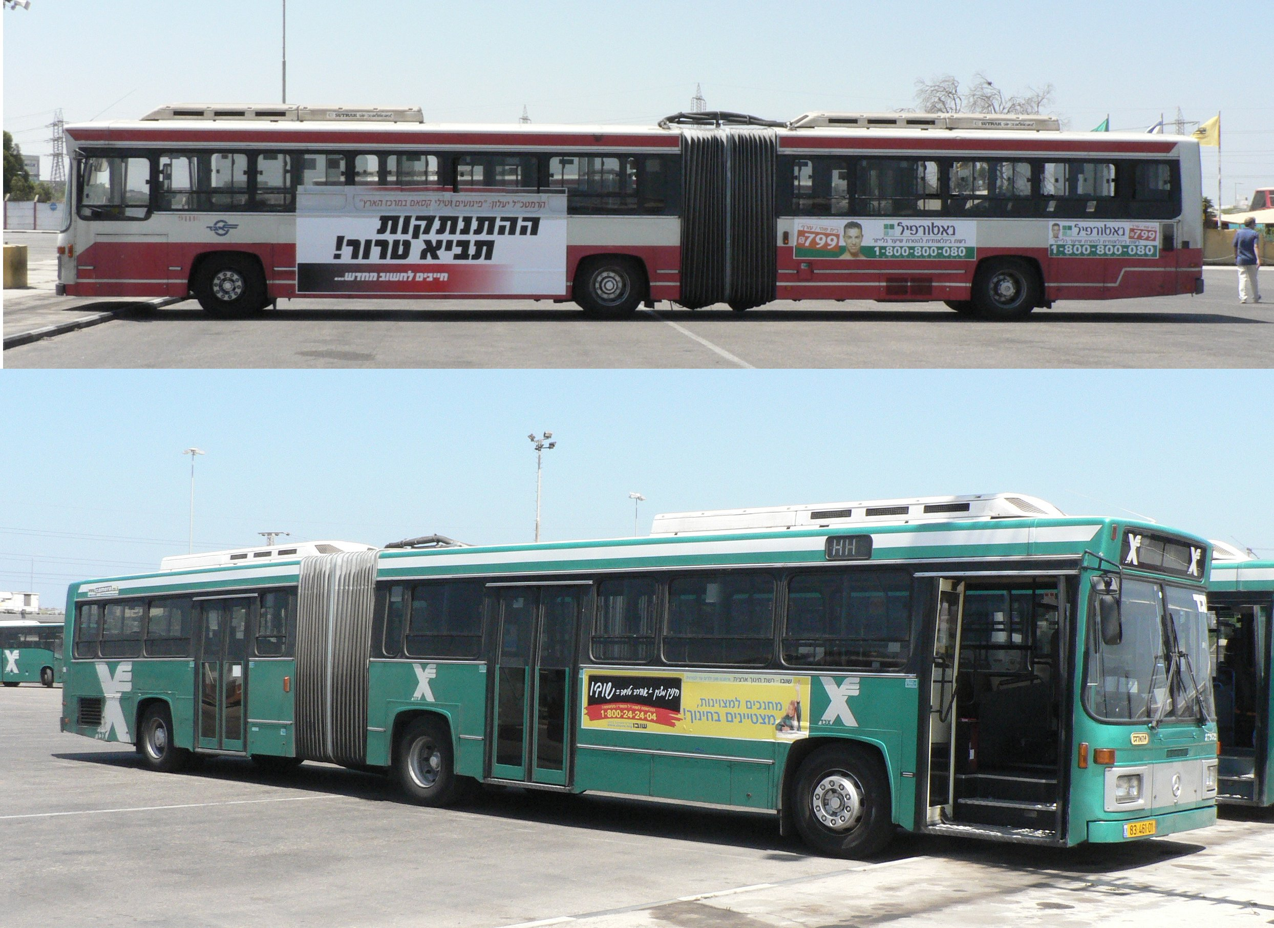 Articulated buses (known as "Double bus" or "Long bus") in Israel